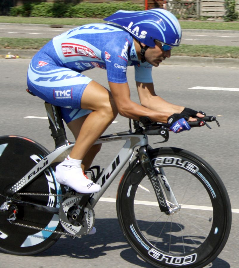 Fabrice Piemontesi at the 2009 Eneco Tour prologue